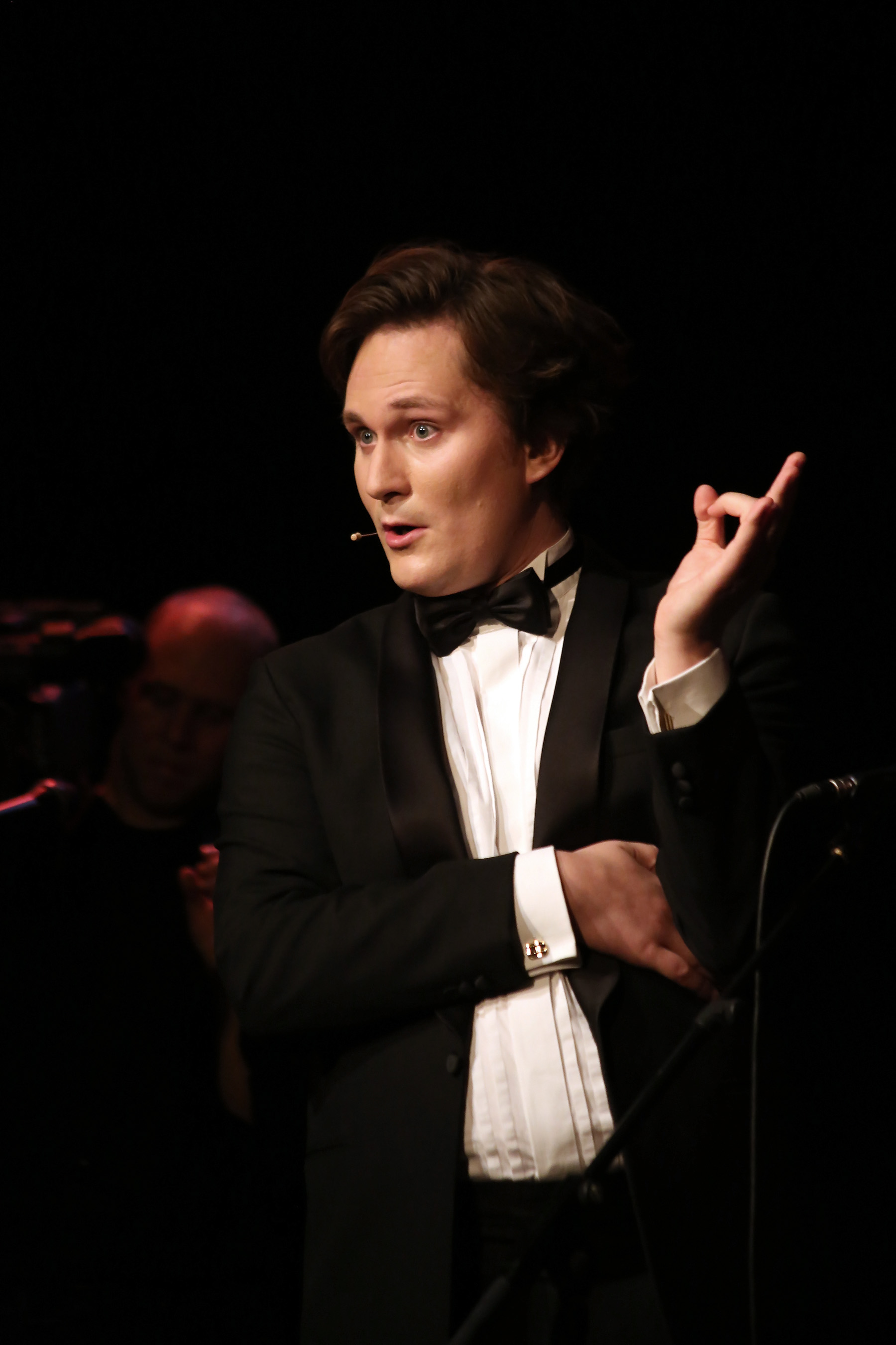 Austrian Cabaret Award 2012 (Porgy & Bess, Vienna).